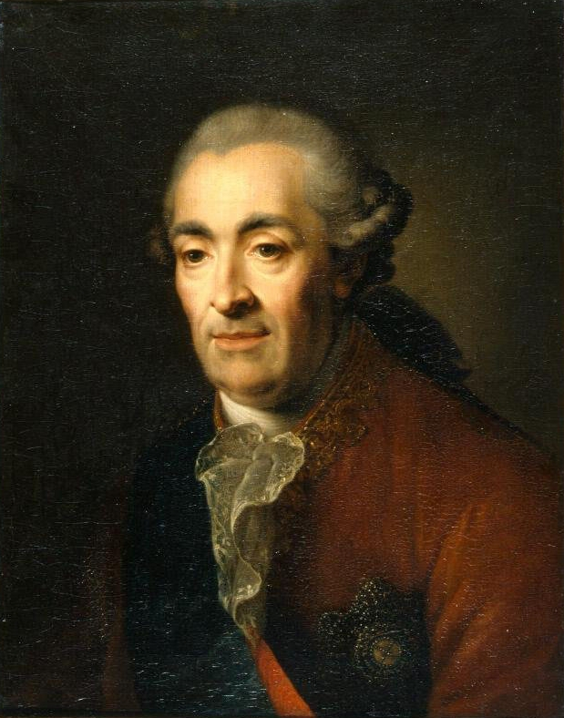 Prince Dmitriy Mikhaylovich Golitsyn (1721—1793)